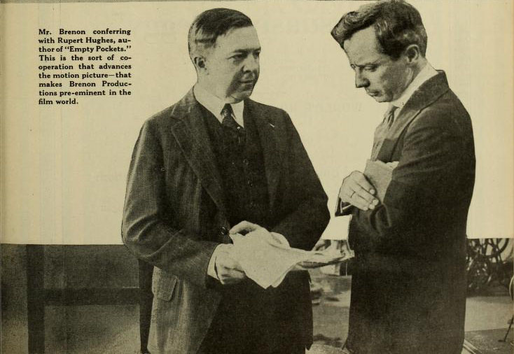 Advertisement in Moving Picture World, Nov 1917